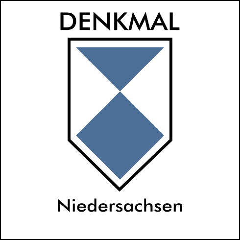 Heritage plate for ground monuments in Lower Saxony